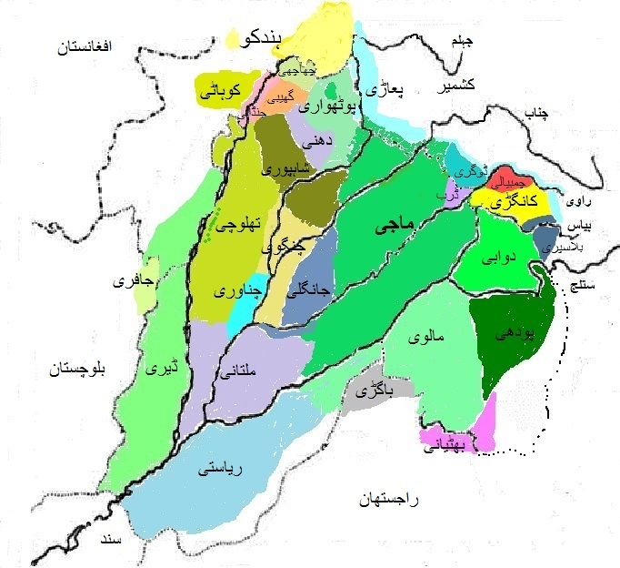 Map of Punjabi dialects in Punjabi. ایہ پنجابی بولیاں دا بنایا گیا پہلا نقشہ اے